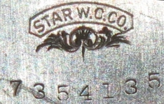 Star Watch Company logo from Elgin Watch c.1924